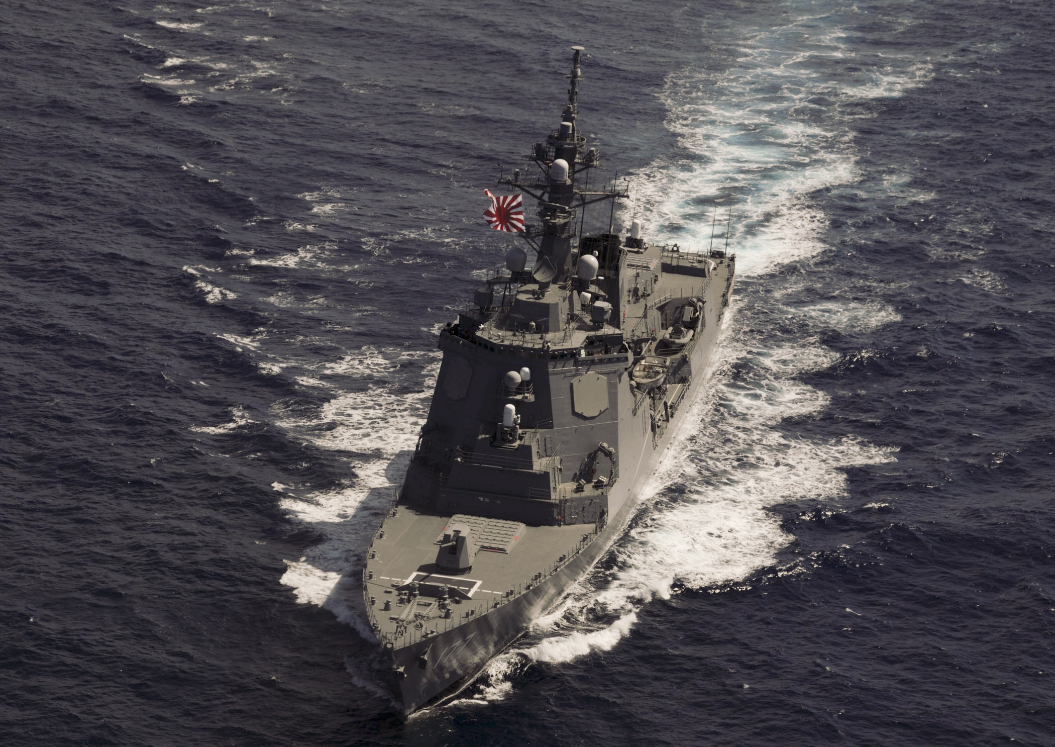 The Japanese Maritime Self-Defense Force guided missile destroyer JS Atago (DDG-177) transits the Pacific Ocean making its way to Joint Base Pearl Harbor-Hickam to participate in Rim of the Pacific (RIMPAC) June 19, 2010.